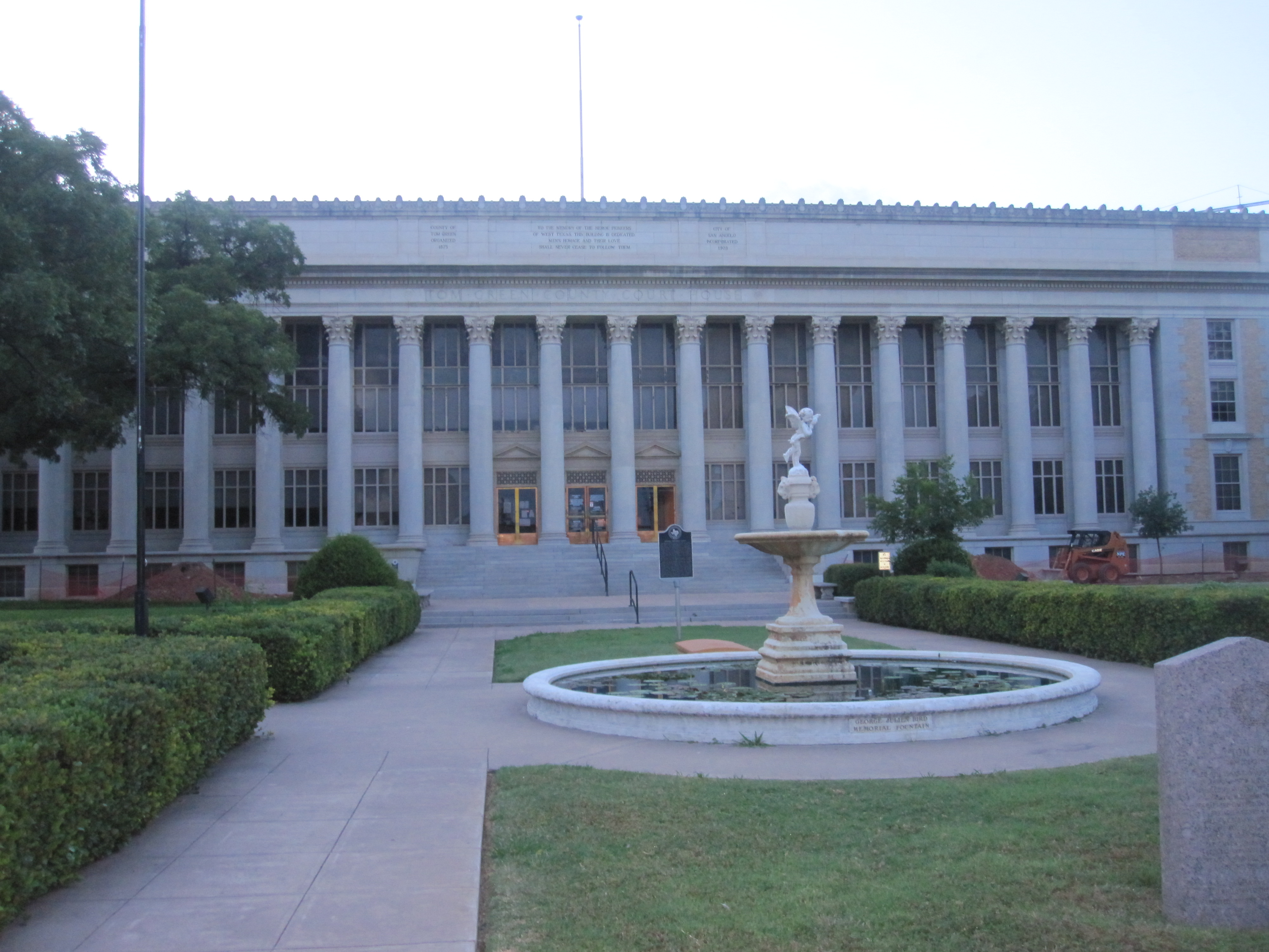 I took photo at the Tom Green County Courthouse in San Angelo, TX.